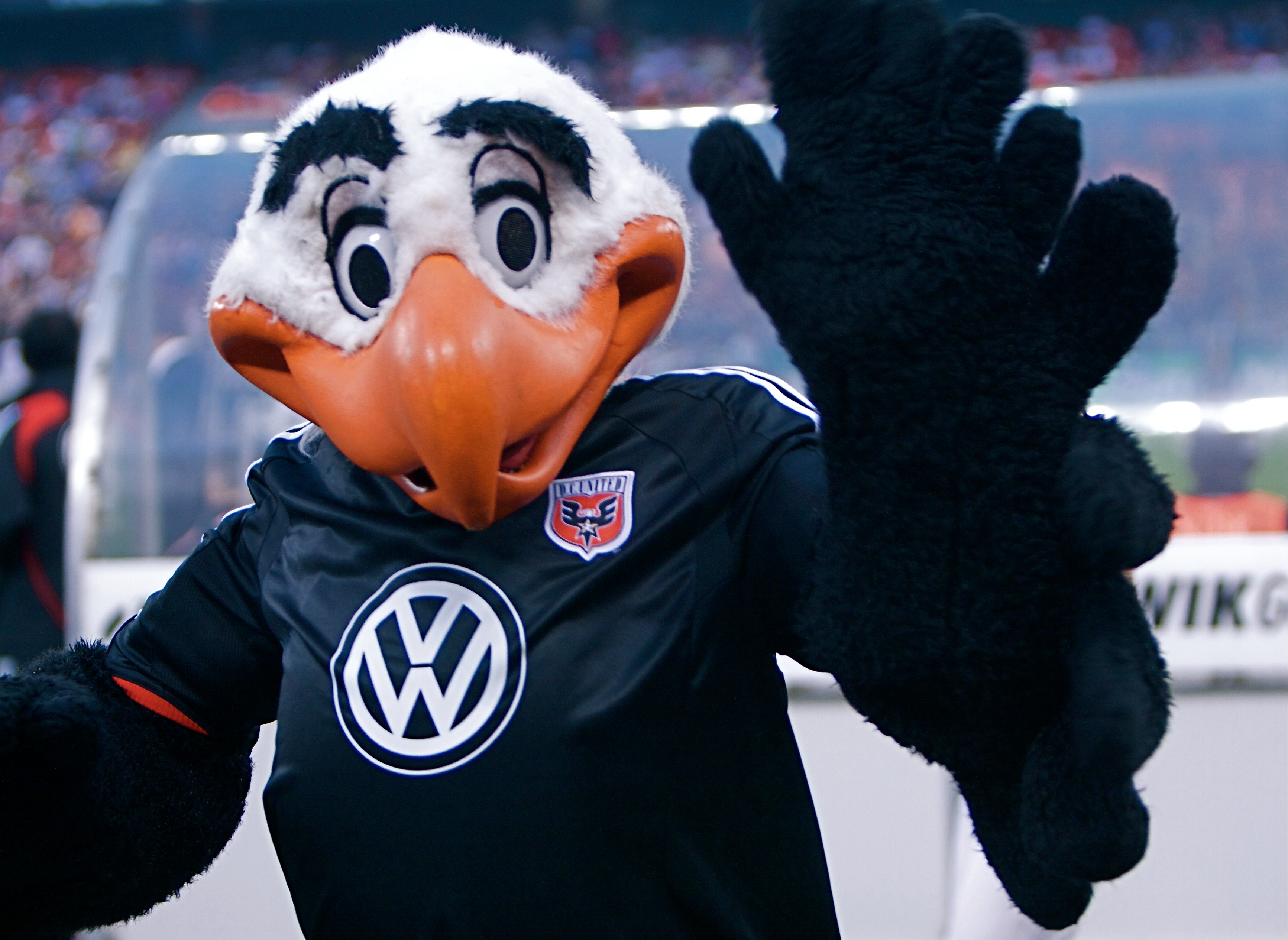 D.C. United mascot, Talon, during a game against the Chicago Fire at RFK stadium on May 8, 2008.